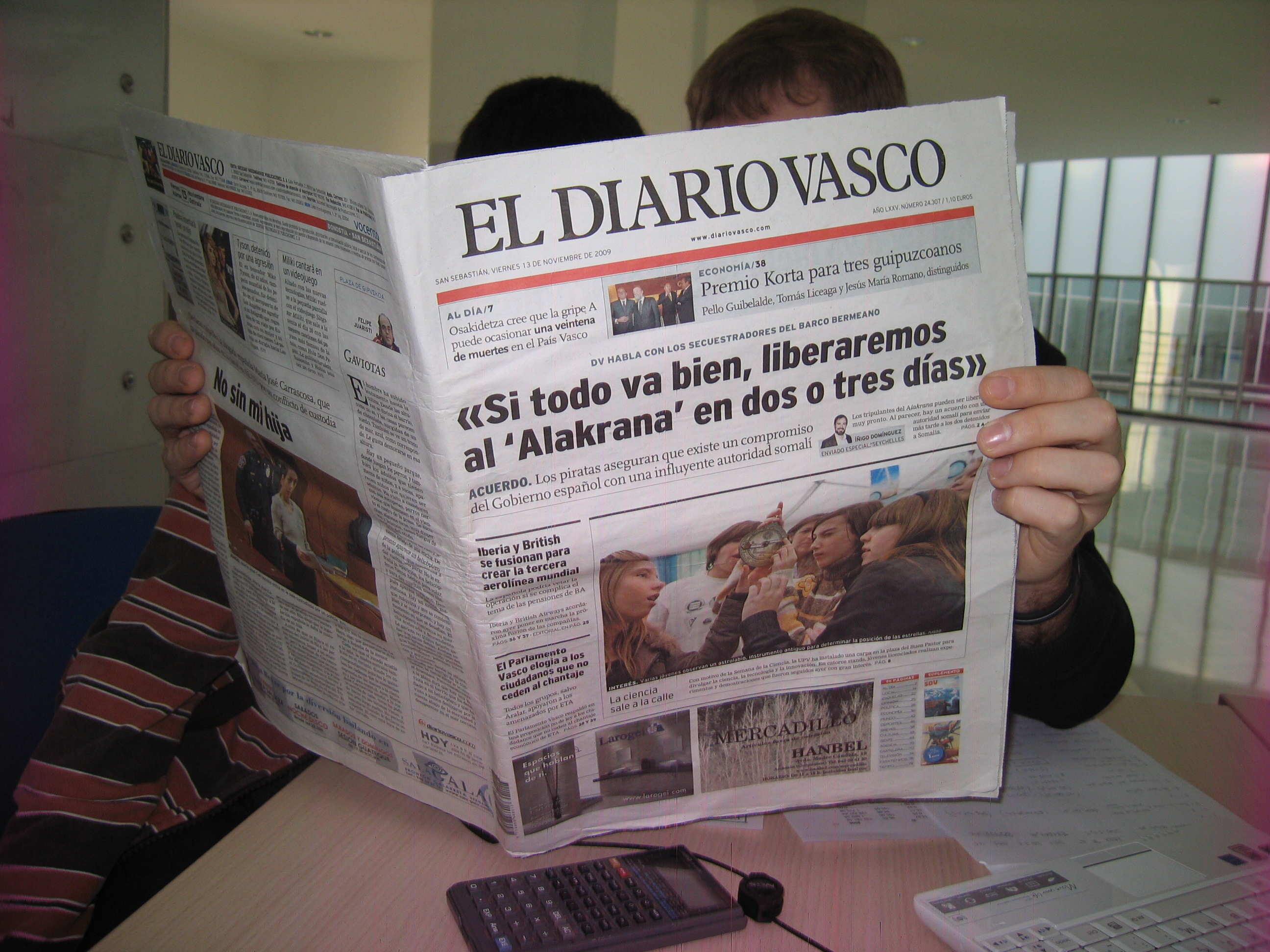 Students reading about Alakrana fishboat's kidnapping in Somalia. Diario Vasco newspaper. 2009-11-13.